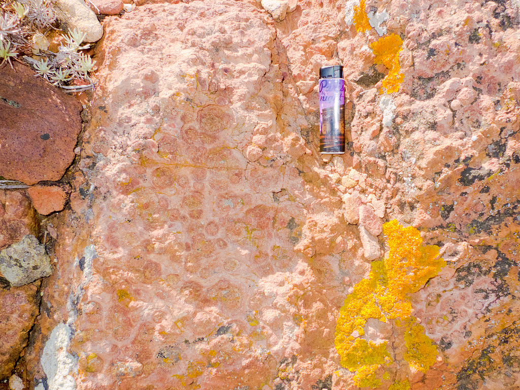 Slightly weathered outcrop of a dyke of pinkish spherulitic rhyolite (termed "pyromeride", here of Permian age) to the north of Galéria, Corsica (France)